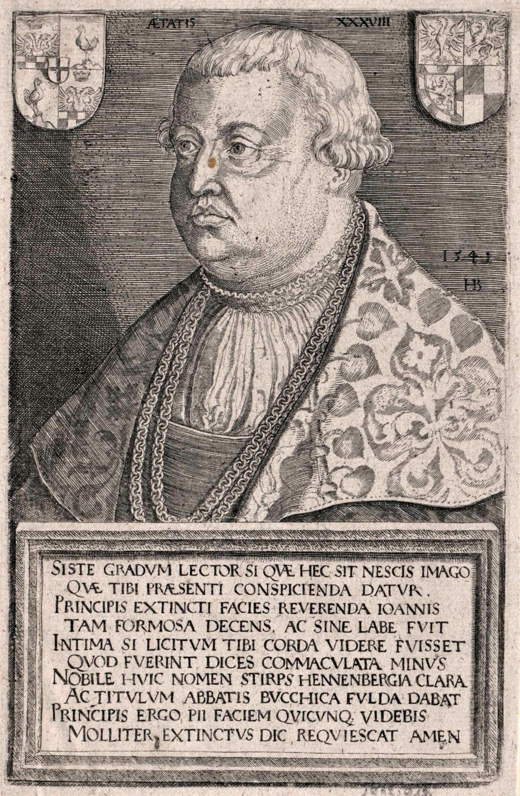 Johann III. von Henneberg-Schleusingen (1503-1541) Fürstabt von Fulda